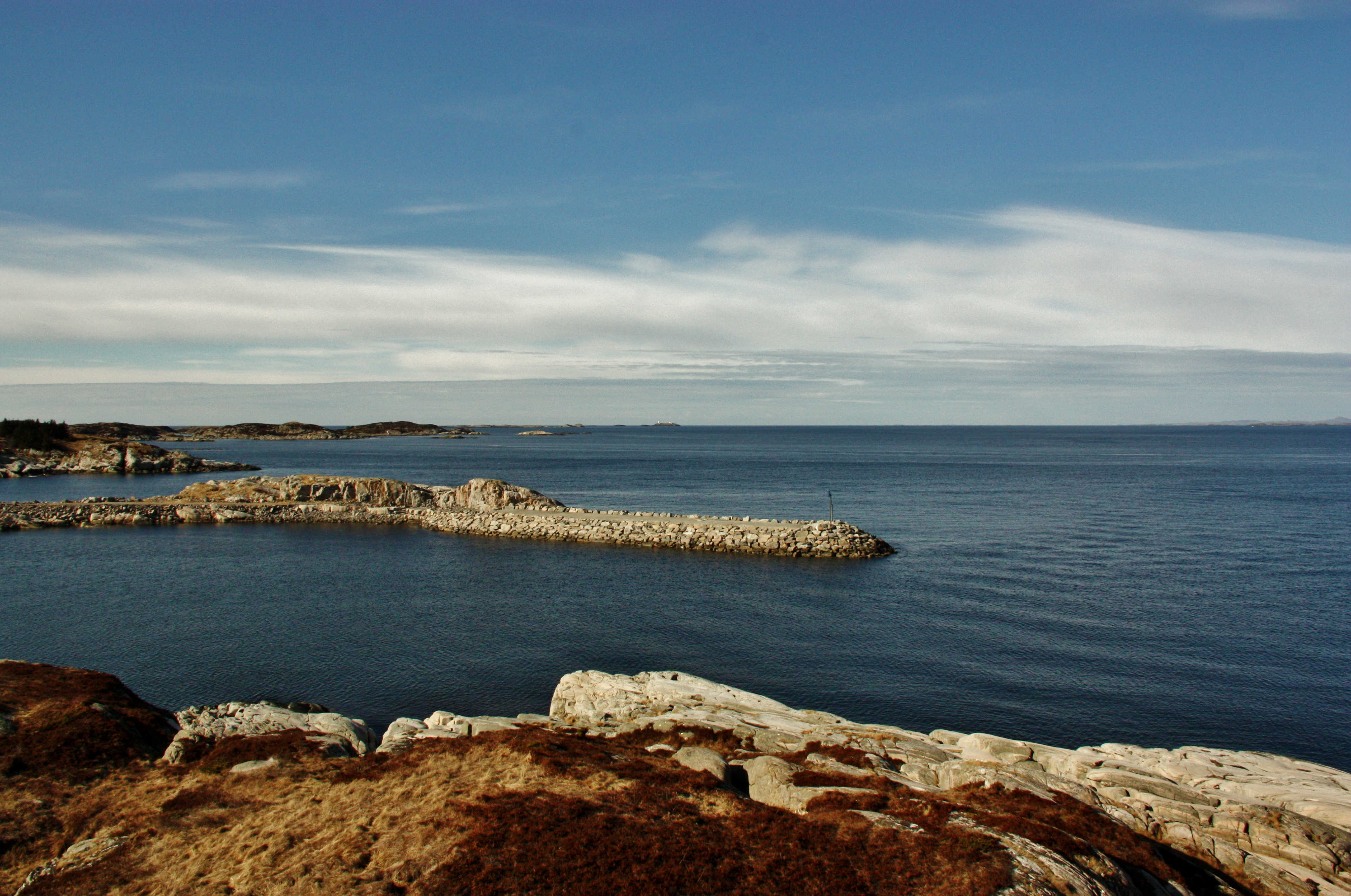 Fedje fjord from Varden.